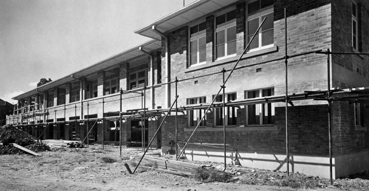 Brisbane Central State School, Infants School, 1st and 2nd sections. (Alternative names for Brisbane Central State School: Leichhardt Street (practising) School; Leichhardt Street State School for Boys, Girls, Infants.)